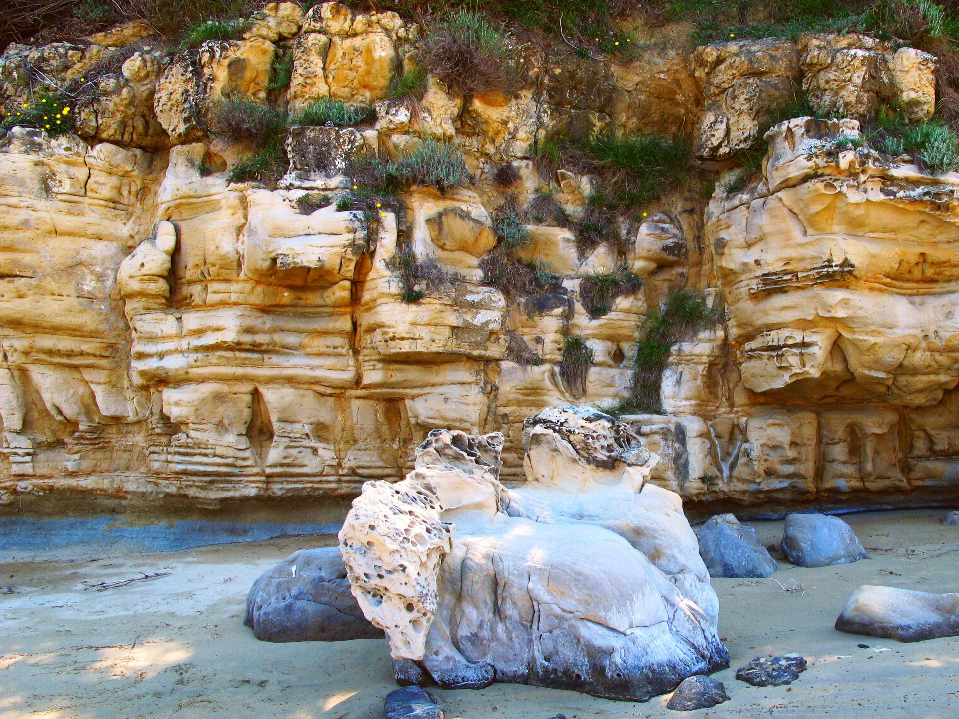 Lopar - The game sea - sand & stone Thank son Bojan Kurelić photo